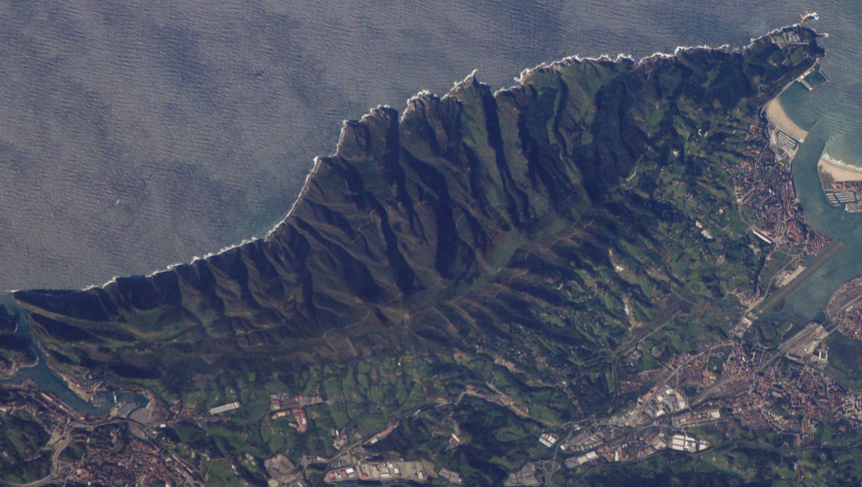 Jaizkibel, Gipuzkoa, Basque Country